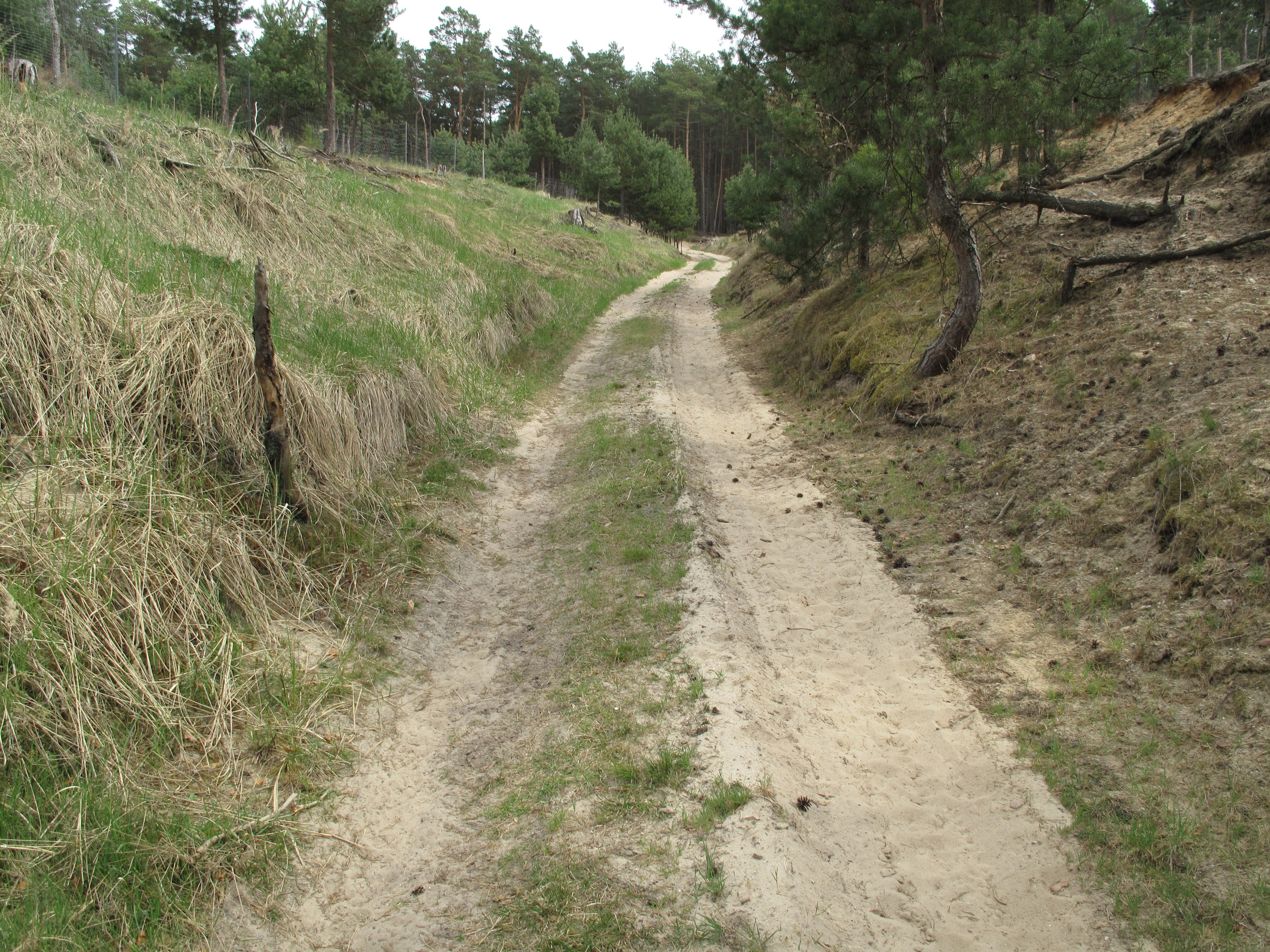 Forest in the east of the Godnasee. The Godnasee is a lake in the village Kehrigk, ap part (german: Ortsteil) of the town Storkow, District Oder-Spree, Brandenburg, Germany. The lake covers 18 hectare and has a depth of max. 6,5 meters. It is situated in the Dahme-Heideseen Nature Park at he border to the Spreewald Biosphere Reserve. It is declared as bathing lake for nudists.